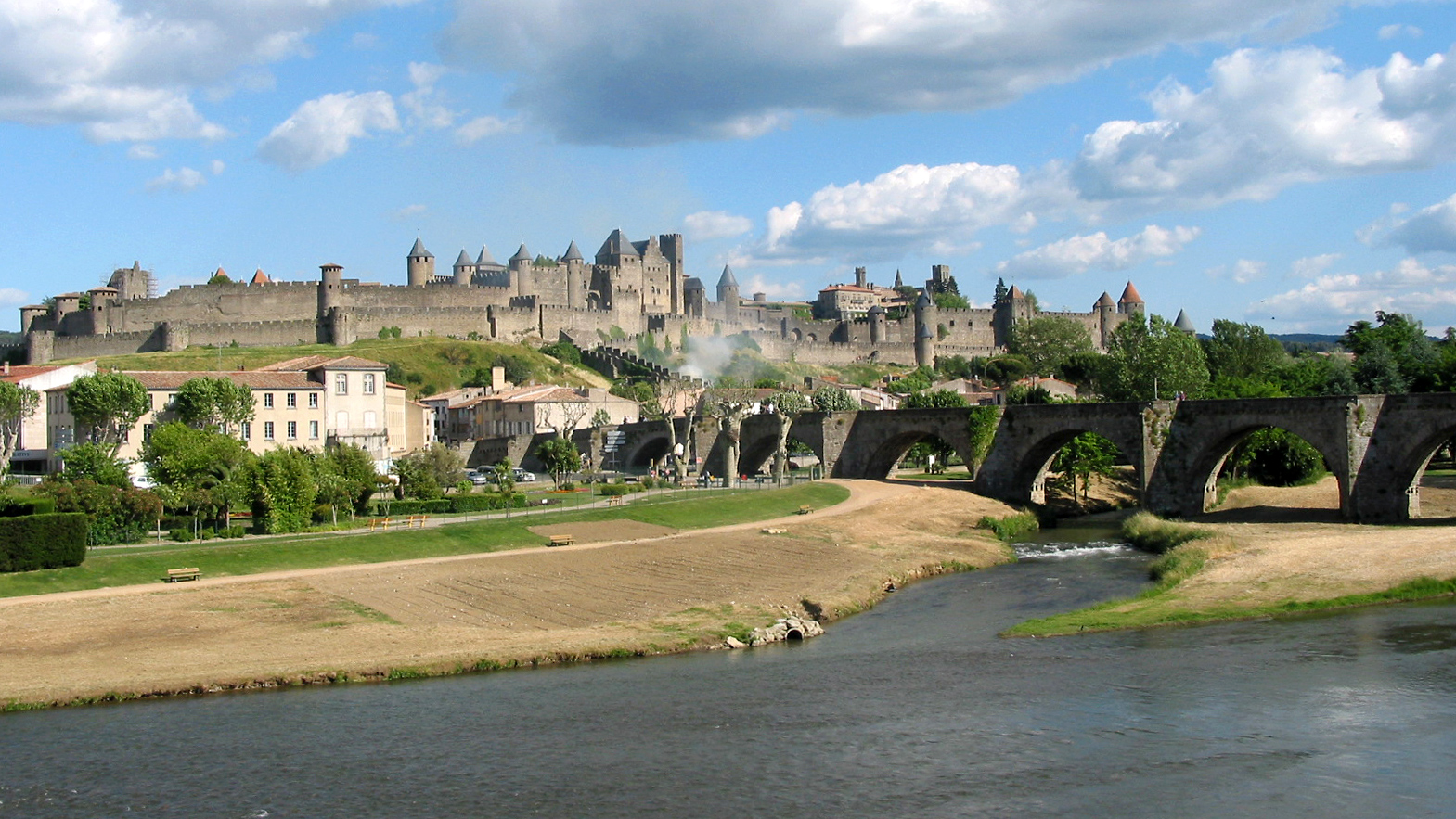 Carcassonne (Aude - France), the Aude River, the old bridge and the medieval city.